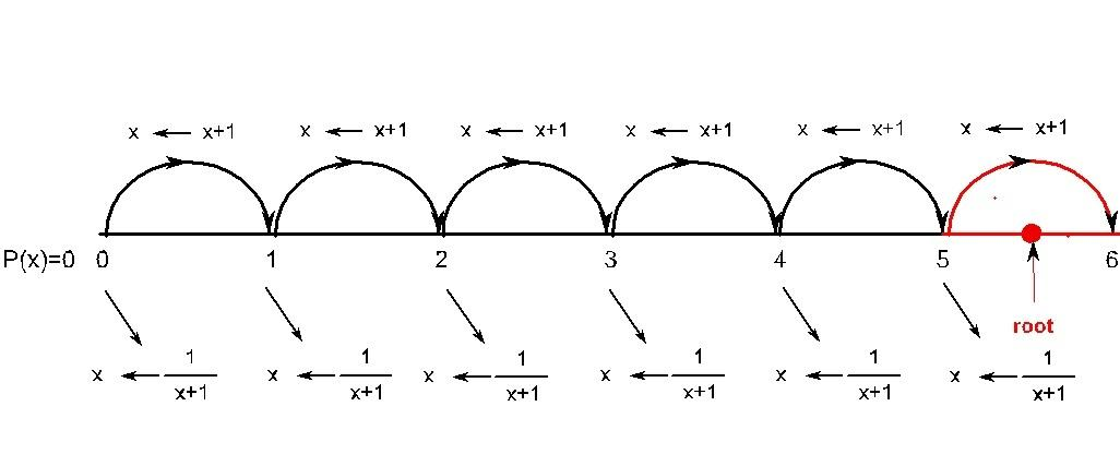 Uspensky's method for finding polynomial roots